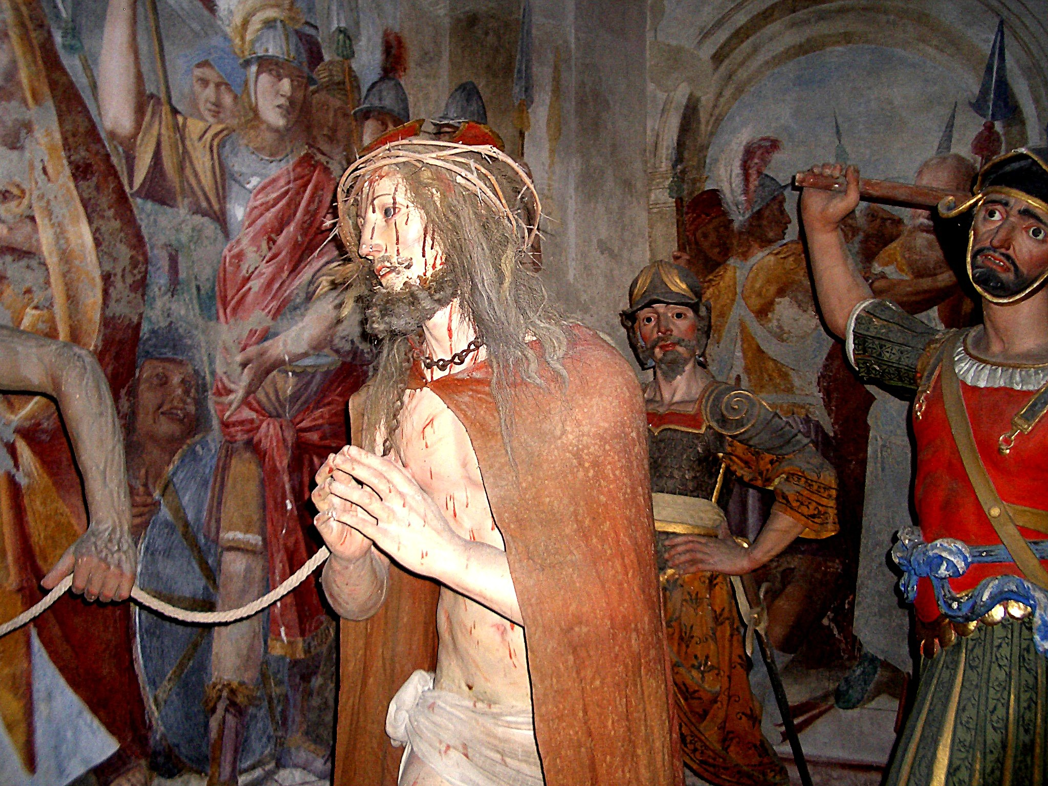 Gaudenzio Ferrari, Statue of Jesus climbs the Praetorian Steps, Polychrome wood, ca. 1510 Italy, Sacro Monte di Varallo (VC), Chapel XXXII